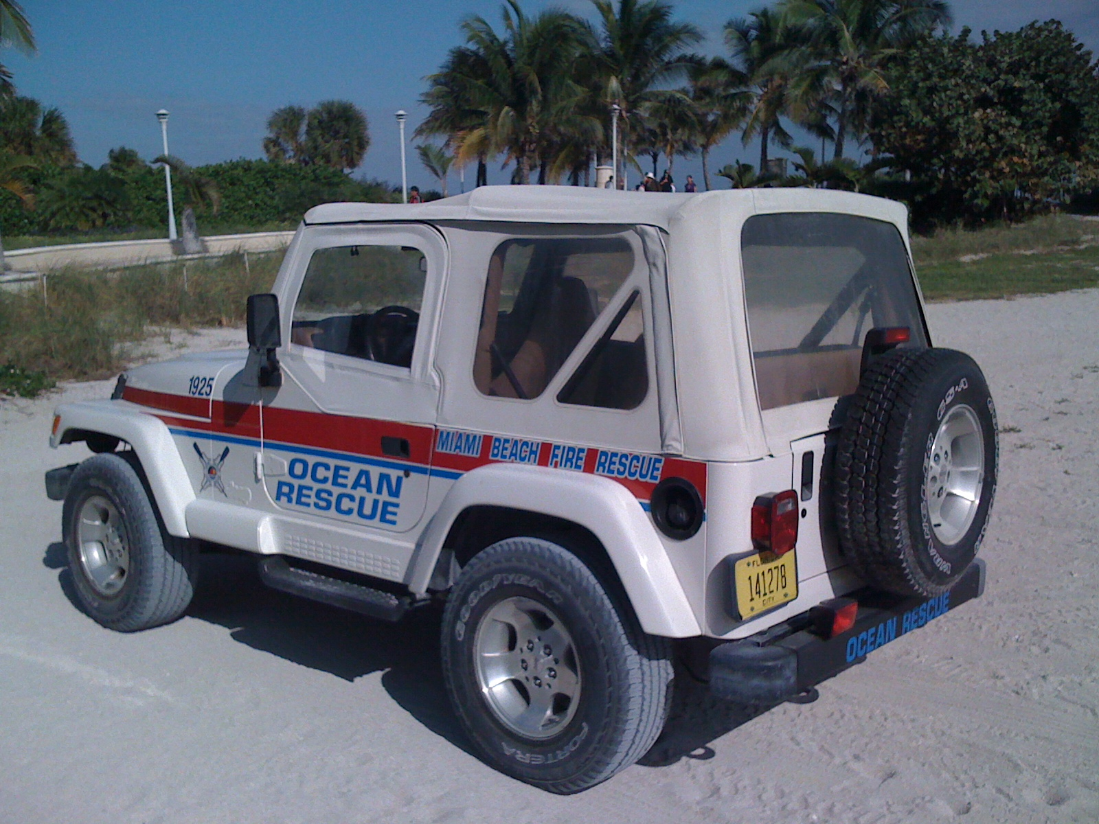 Jeep In Miami Beach, Florida - rear view of the Ocean Rescue vehicle on the beach. City of Miami Beach Fire and Rescue Department